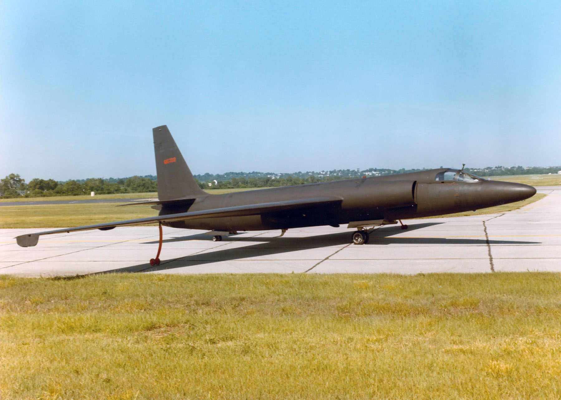 Article 389, serial no. 56-6722; Last of the original batch of U-2A Dragon Lady aircraft, on display at the USAF Museum